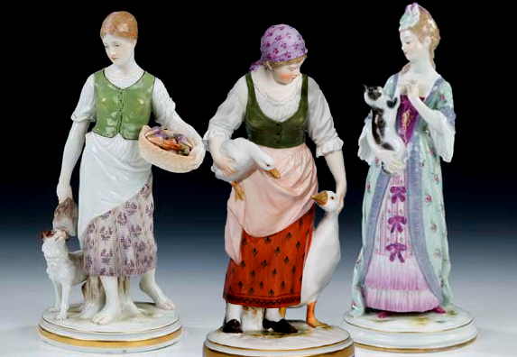 three procelaine figures by jacob ungerer (1840-1920)